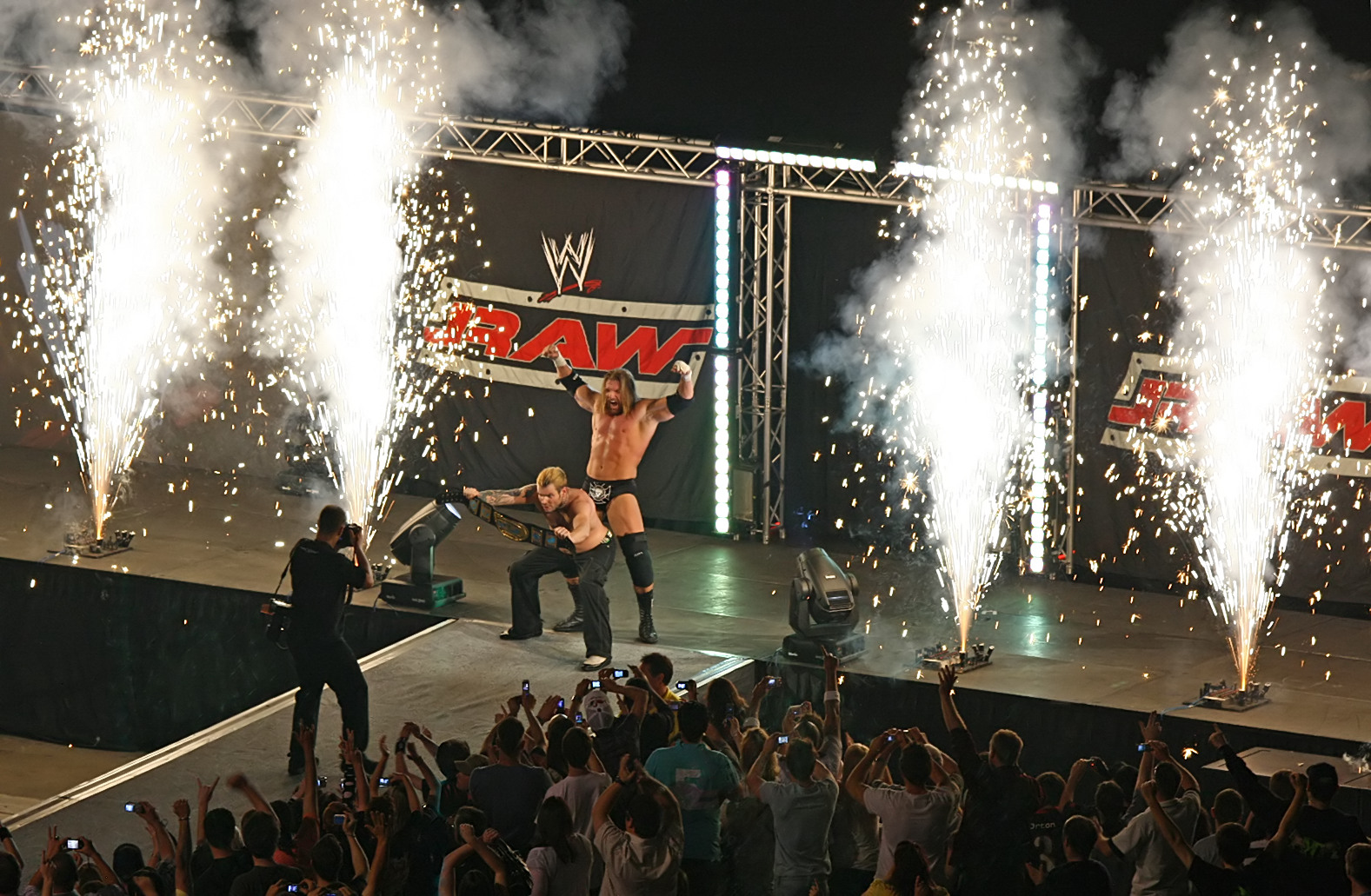 Jeff Hardy and Triple H posing for the crowd and photographers with pyrotechnics. Taken during the WWE Raw - Survivor Series Tour, at Rod Laver Arena, Melbourne Park, Melbourne, Australia. Hardy and Triple H wrestled in the main event of the night, a tag-team bout involving Umaga & Randy Orton (reigning WWE Champion) vs Jeff Hardy (reigning Intercontinental Champion) & Triple H; the match was won by Triple H pinning Orton following a pedigree.